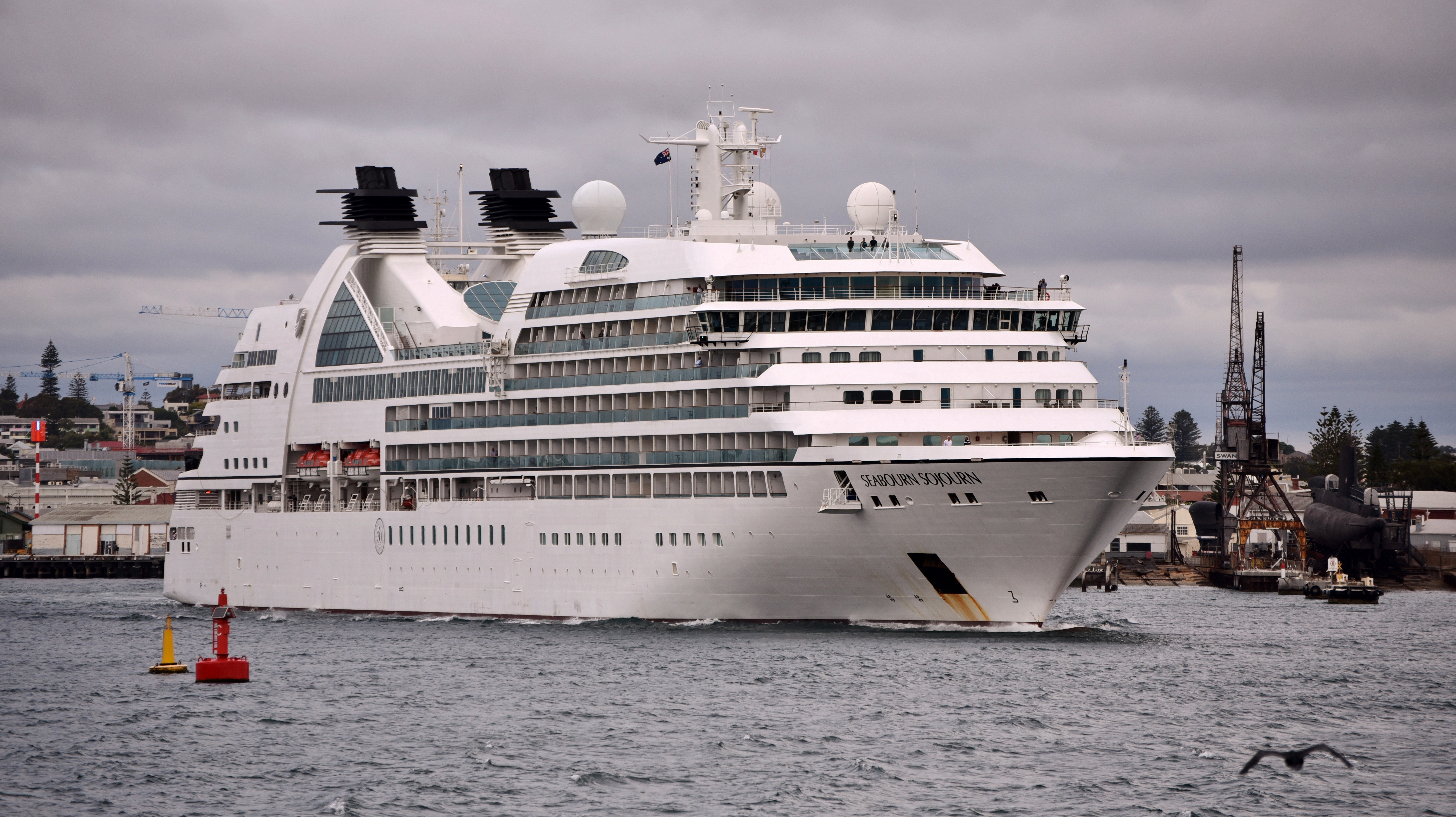 Cruise ship Seabourn Sojourn departing from the inner harbour of the Port of Fremantle, Western Australia, on a 20 day cruise to Singapore via the Kimberley, East Timor and Indonesia.